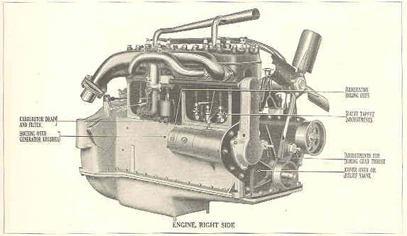 Scan from 1919 Standardized Military truck, Class-B Manual